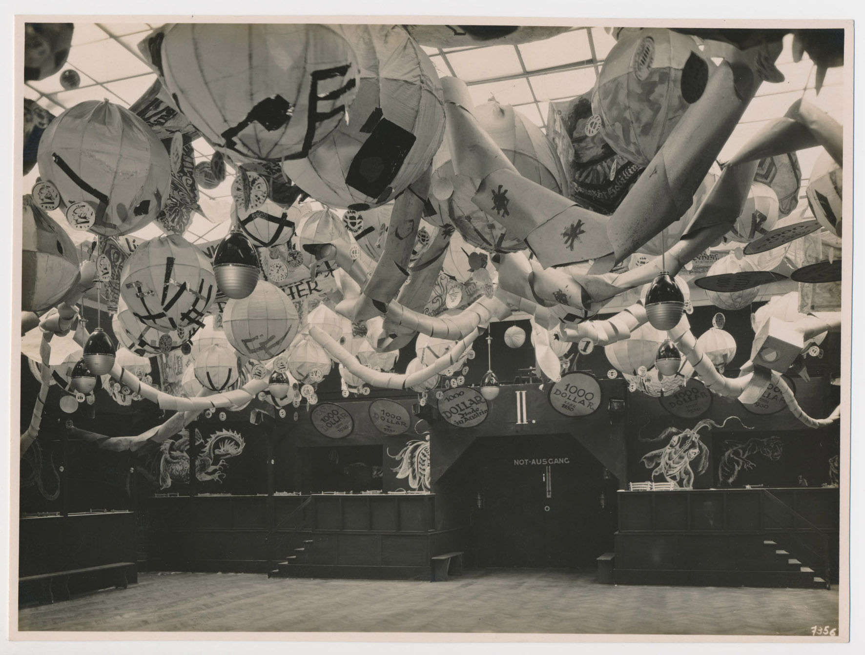 Künstlerhaus Archiv Publikation zum Gschnas-Fest Gross-Peking 29. Februar 1892 (Künstlerhaus Archiv) © Künstlerhaus Archiv